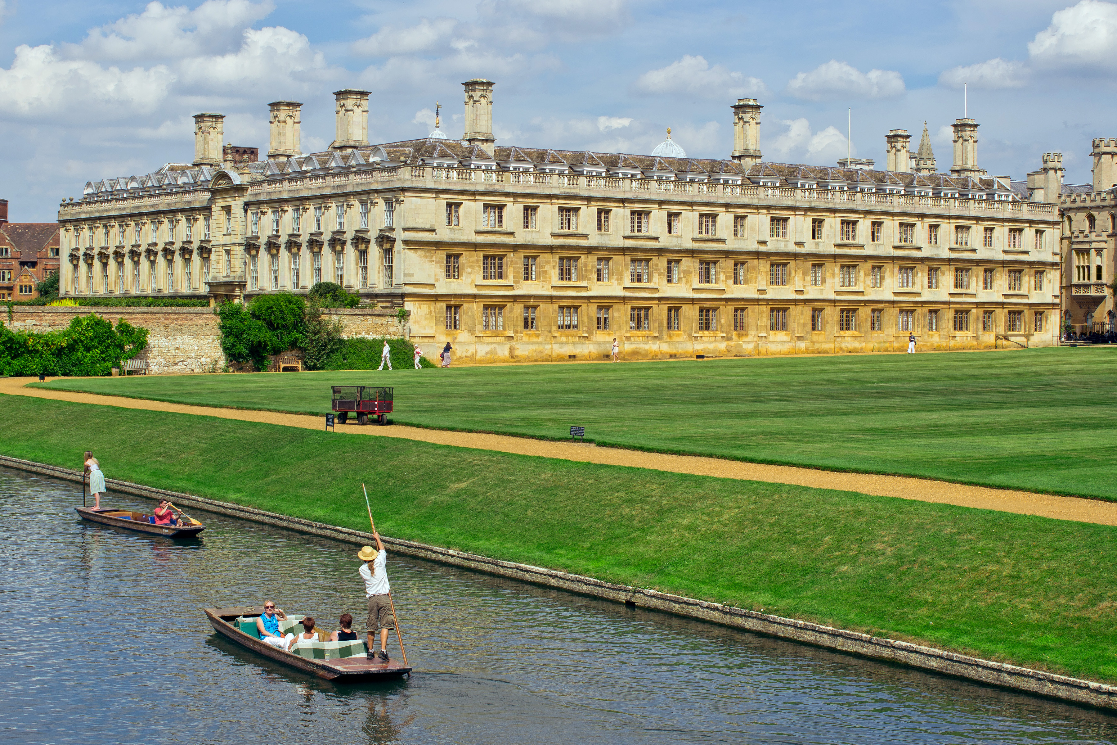 Old Court, Clare College, from King's Bridge, Cambridge